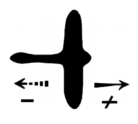 Modification and clean up of Tinbergen's goose/hawk model